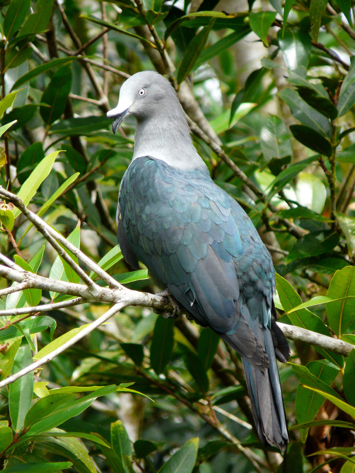 Nukuhiva pigeon, Marquesas, French Polynesia